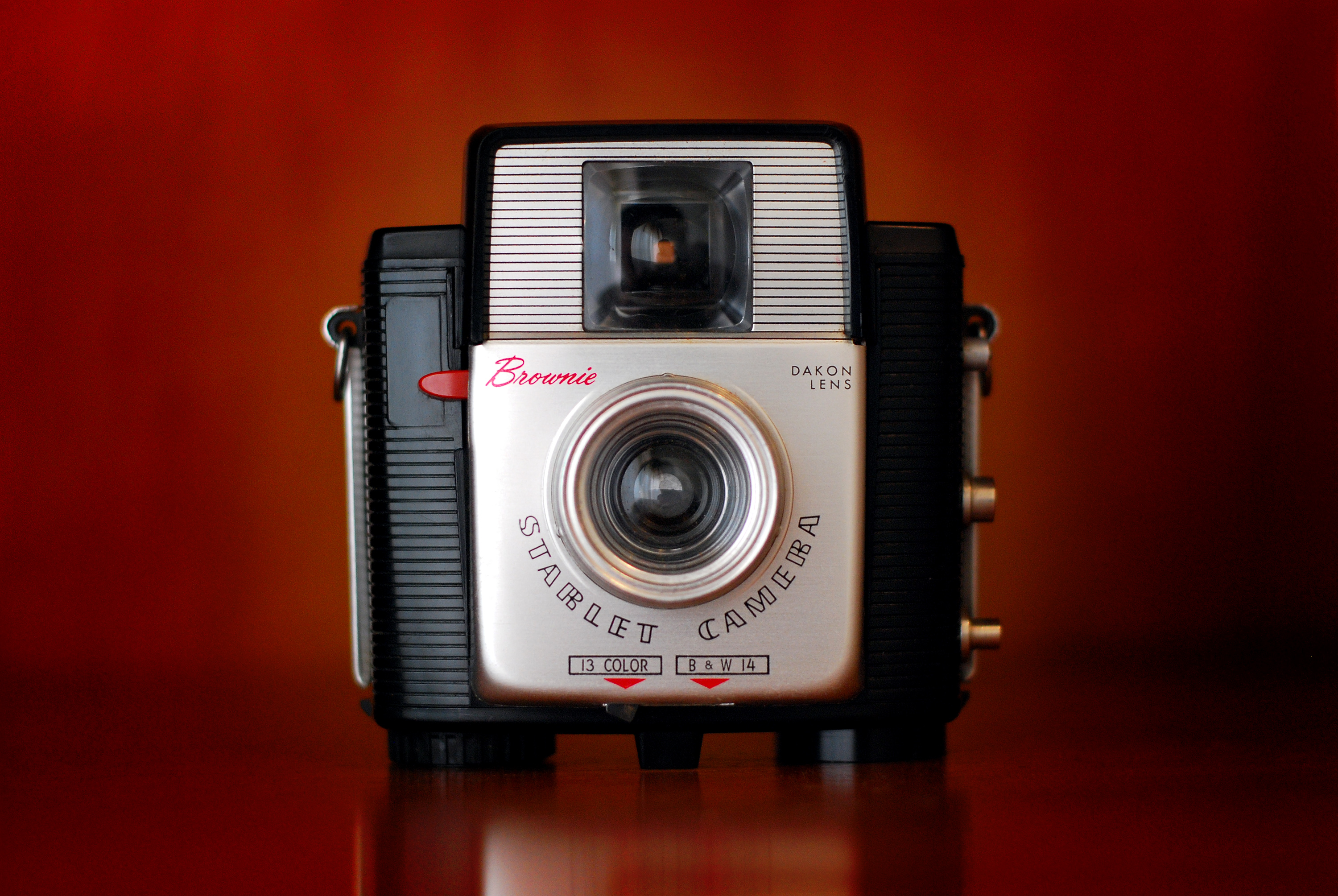 The Brownie camera was the first hand-held camera that was cheap enough and simple enough for even children to use, making photography accessible to the masses. Source